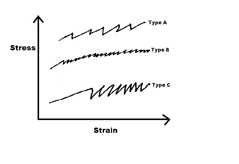 Band shapes picture for the PLC effect